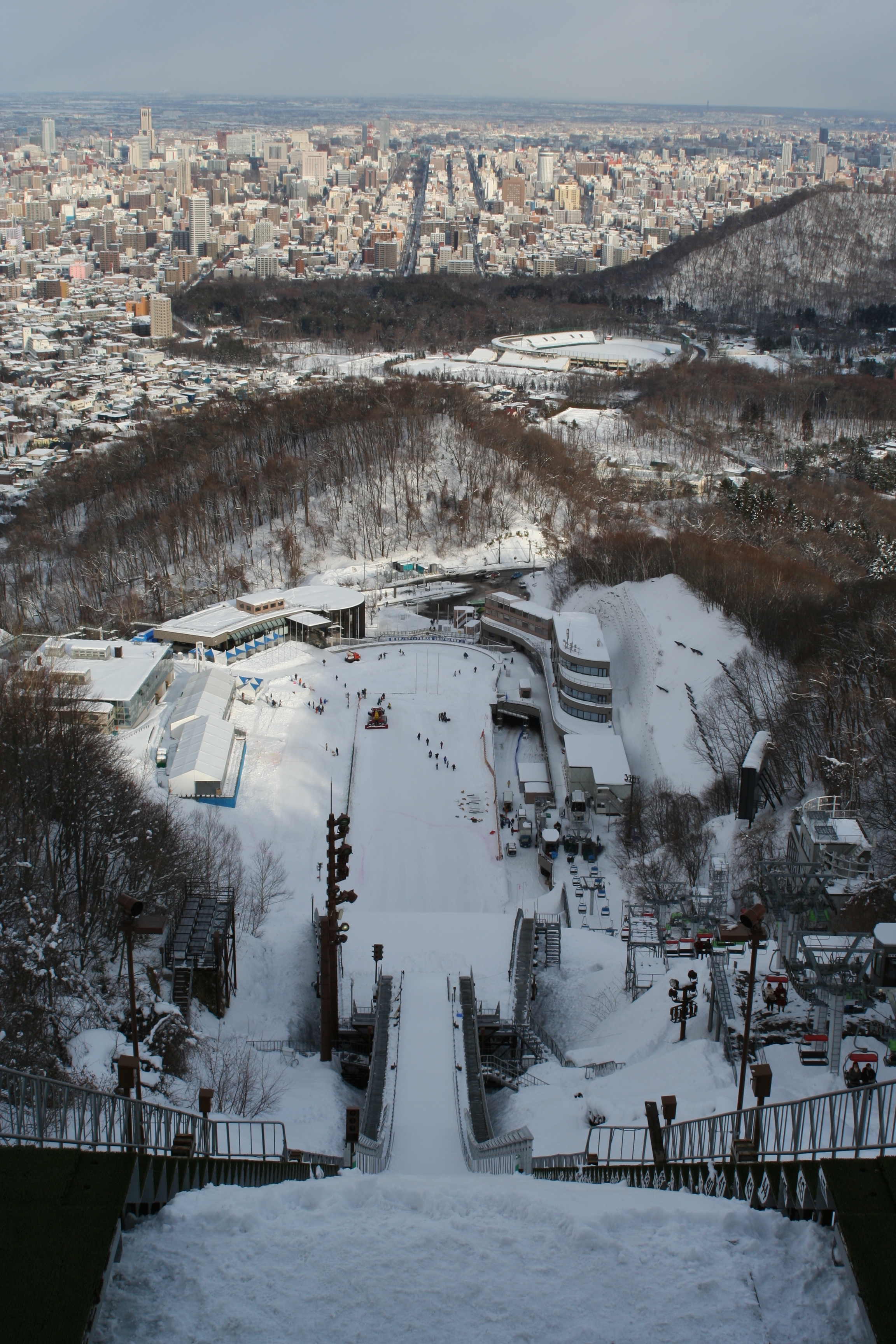 View from Okurayama Ski Jumping Tower in Sapporo, Japan, Site of Olympic Winter Games in 1972 and Nordic World Ski Championships 2007)